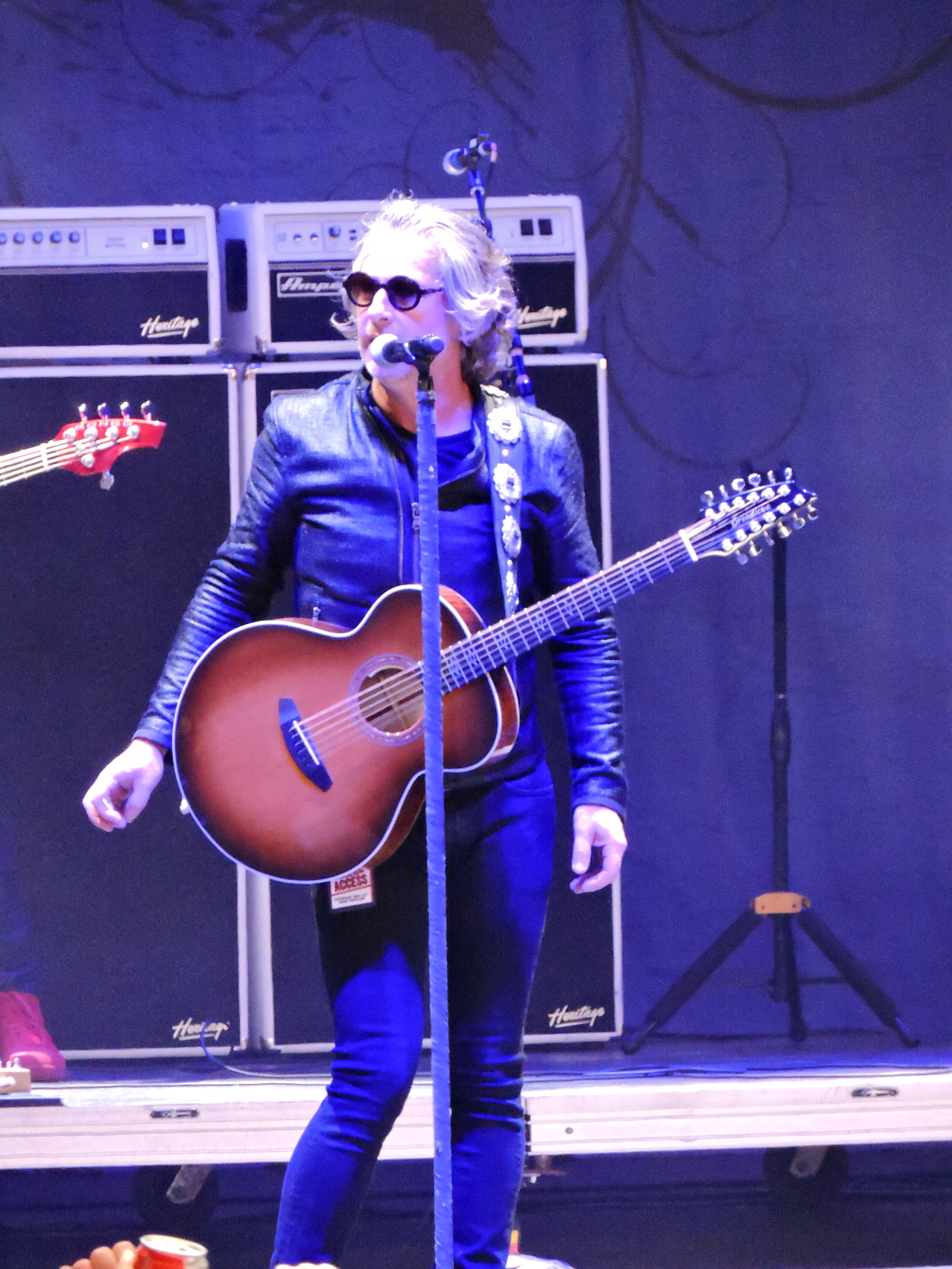 Ed Roland with Collective Soul at 2016 MMRBQ